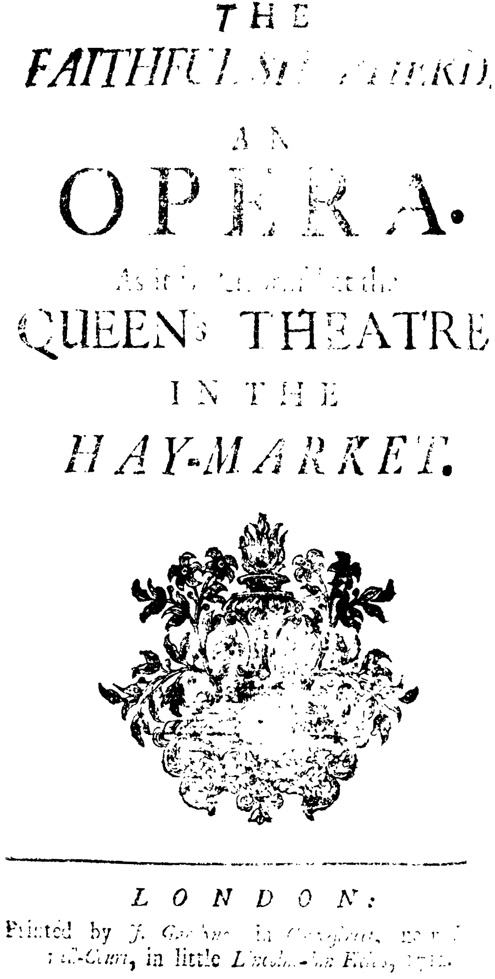 Georg Friedrich Händel - Il pastor fido - title page of the libretto - London 1712